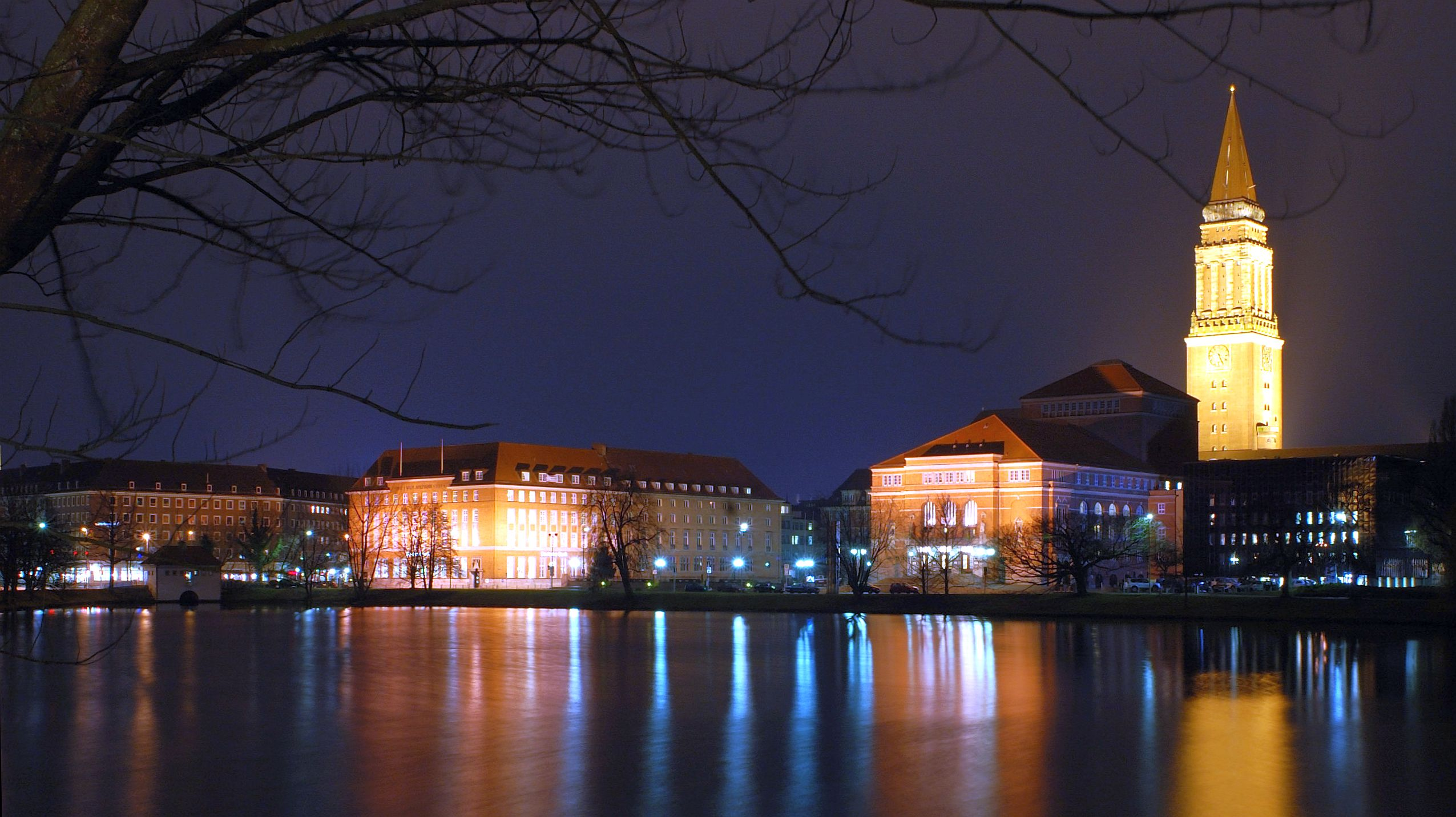 Kiel Townhall with Townhall Tower and Kiel Opera House; in front 'Kleiner Kiel' (West)